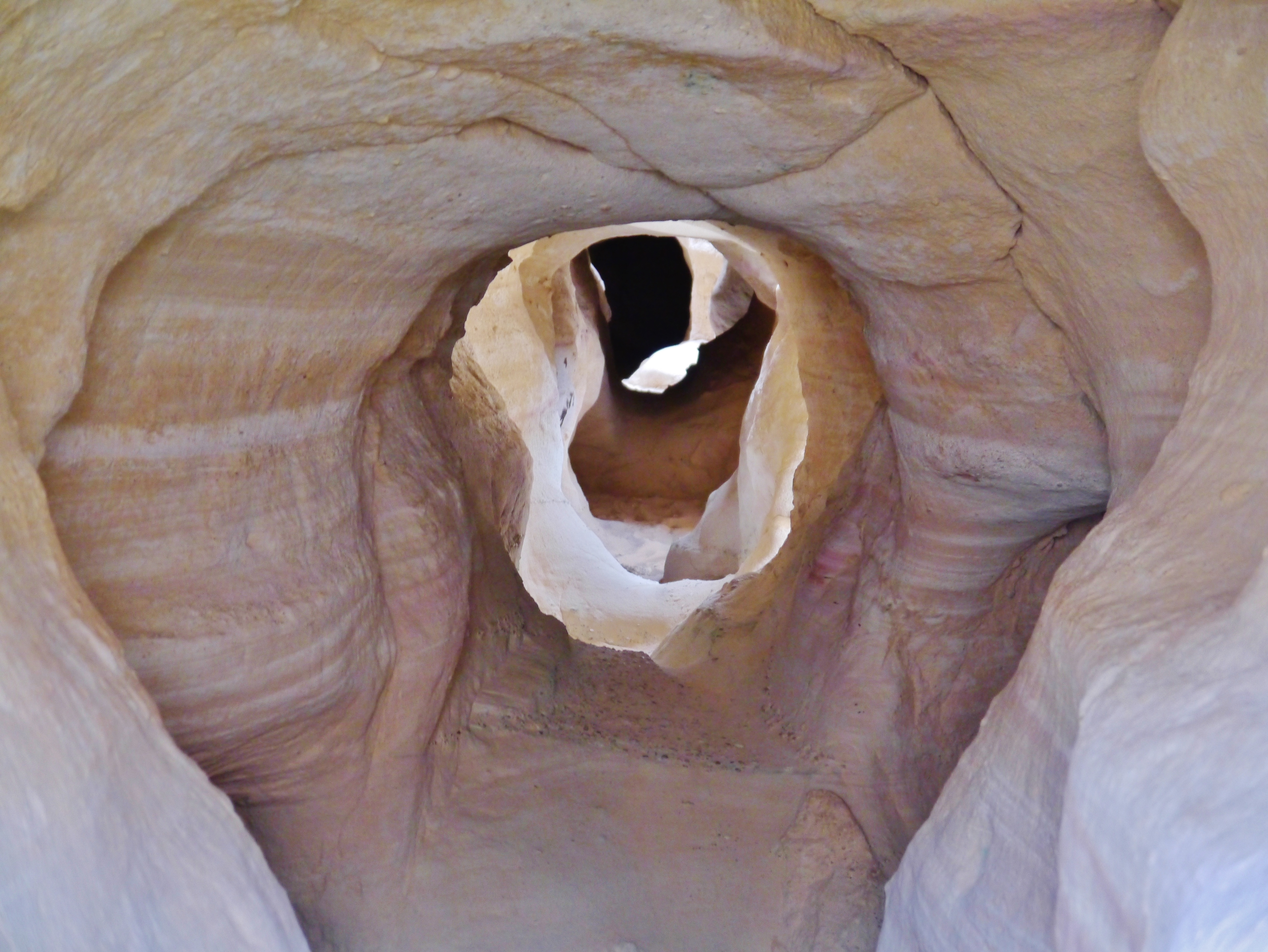 Copper mines, Timna Valley, Negev Desert, Israel